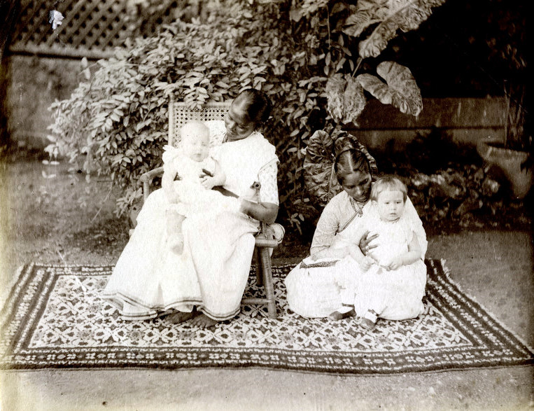 "Ayahs," an albumen photo, c.1880's* Source: ebay, Dec. 2007